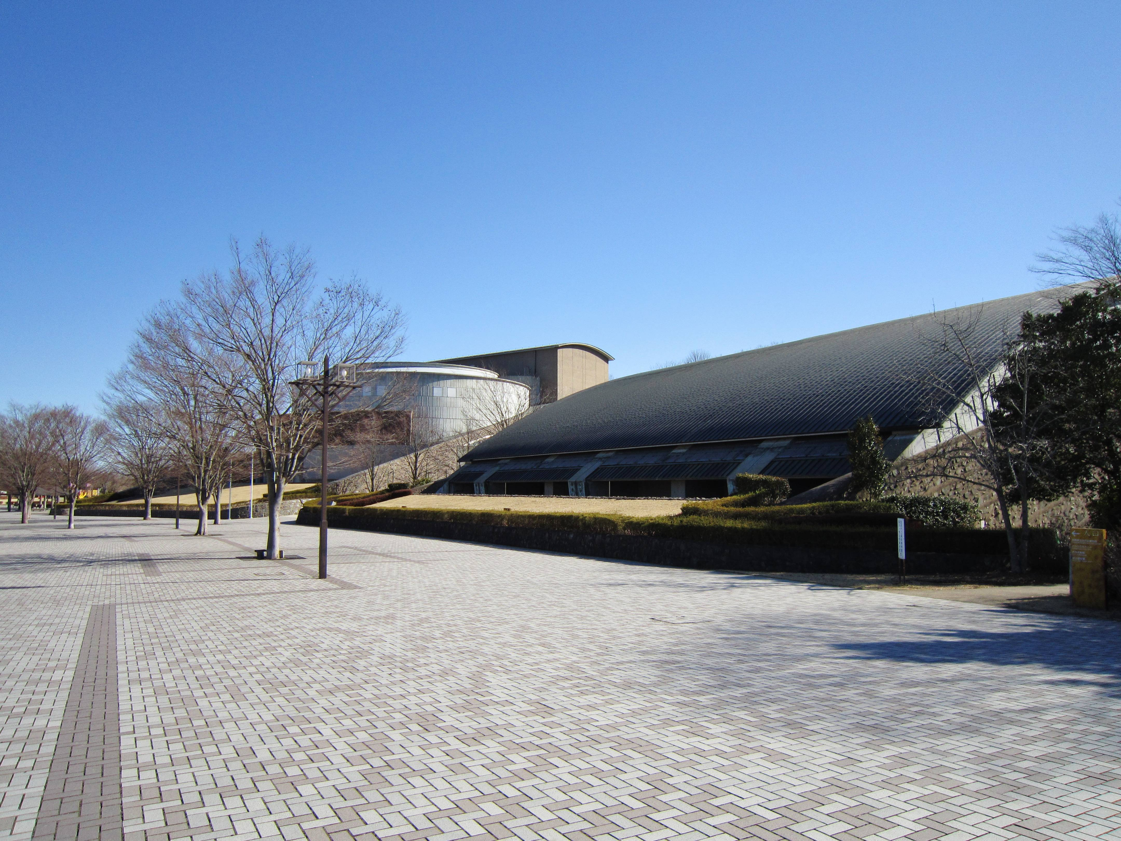 Gunma Museum Of Natural History and Tomioka Kabura Bunka Hall.